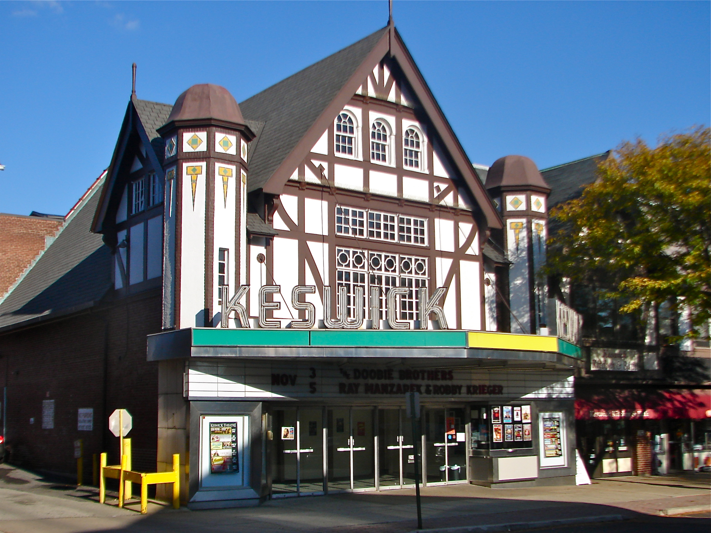 Keswick Theatre on the NRHP since June 30, 1983. At 291 Keswick Avenue, Glenside, Montgomery County, Pennsylvania. Horace Trumbauer, architect.